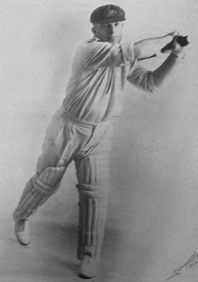 Portrait of Charles Macartney